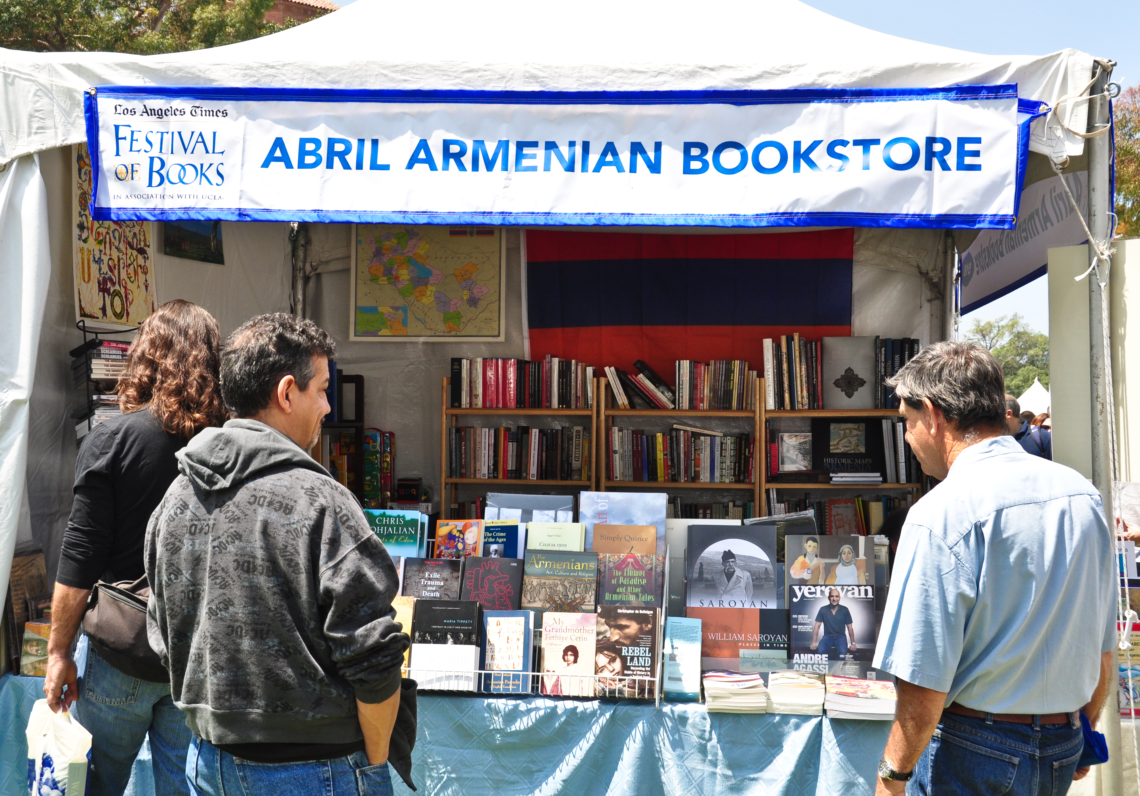 Abril Armenian bookstore's booth at 2010 LA Times festival of books